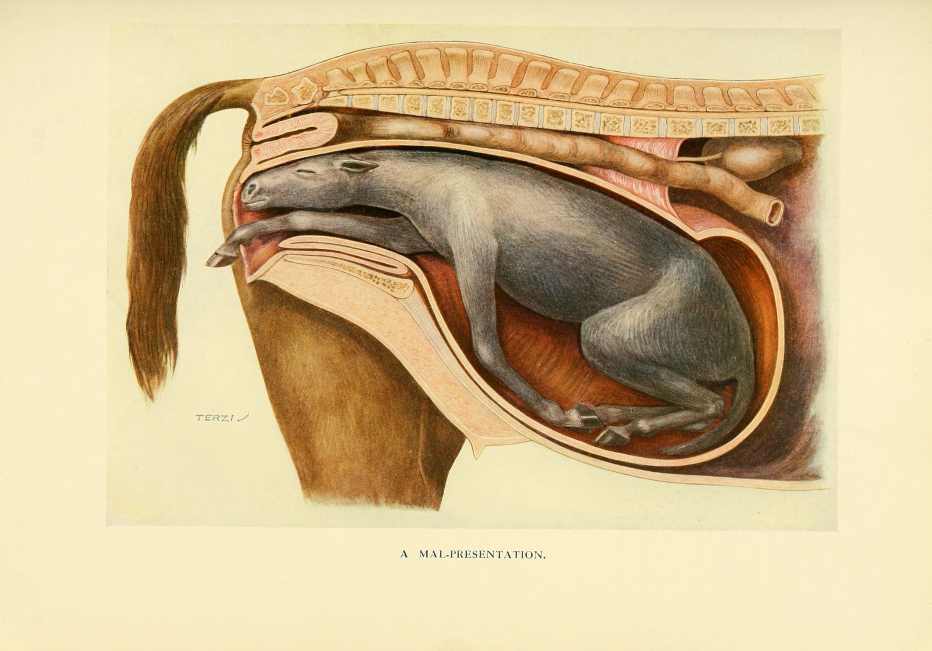 The new book of the horse / by Charles Richardson.